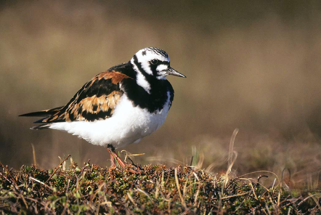 Ruddy Turnstone